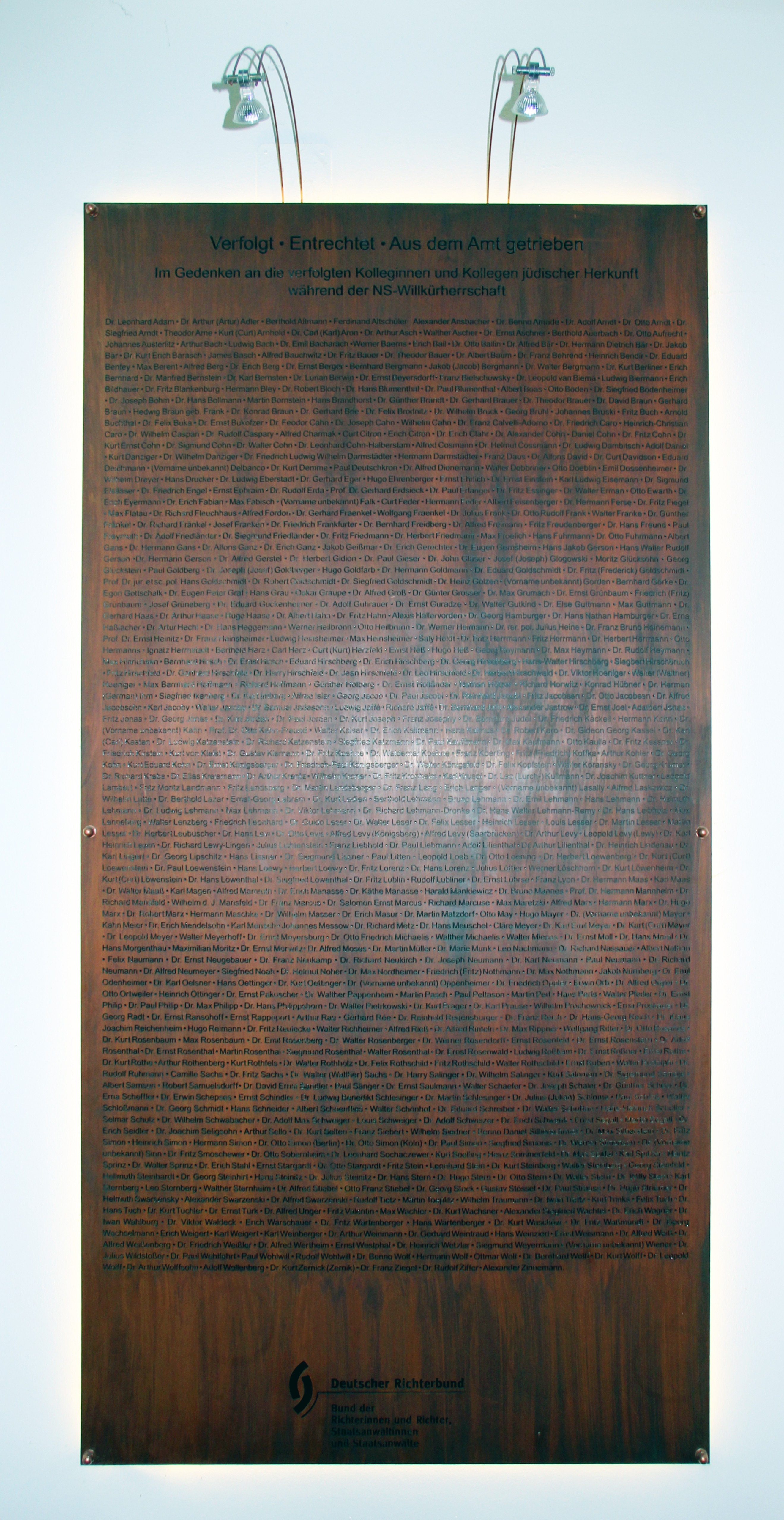 Memorial plaque, Jüdische Richter, Kronenstraße 73, Berlin-Mitte, Deutschland